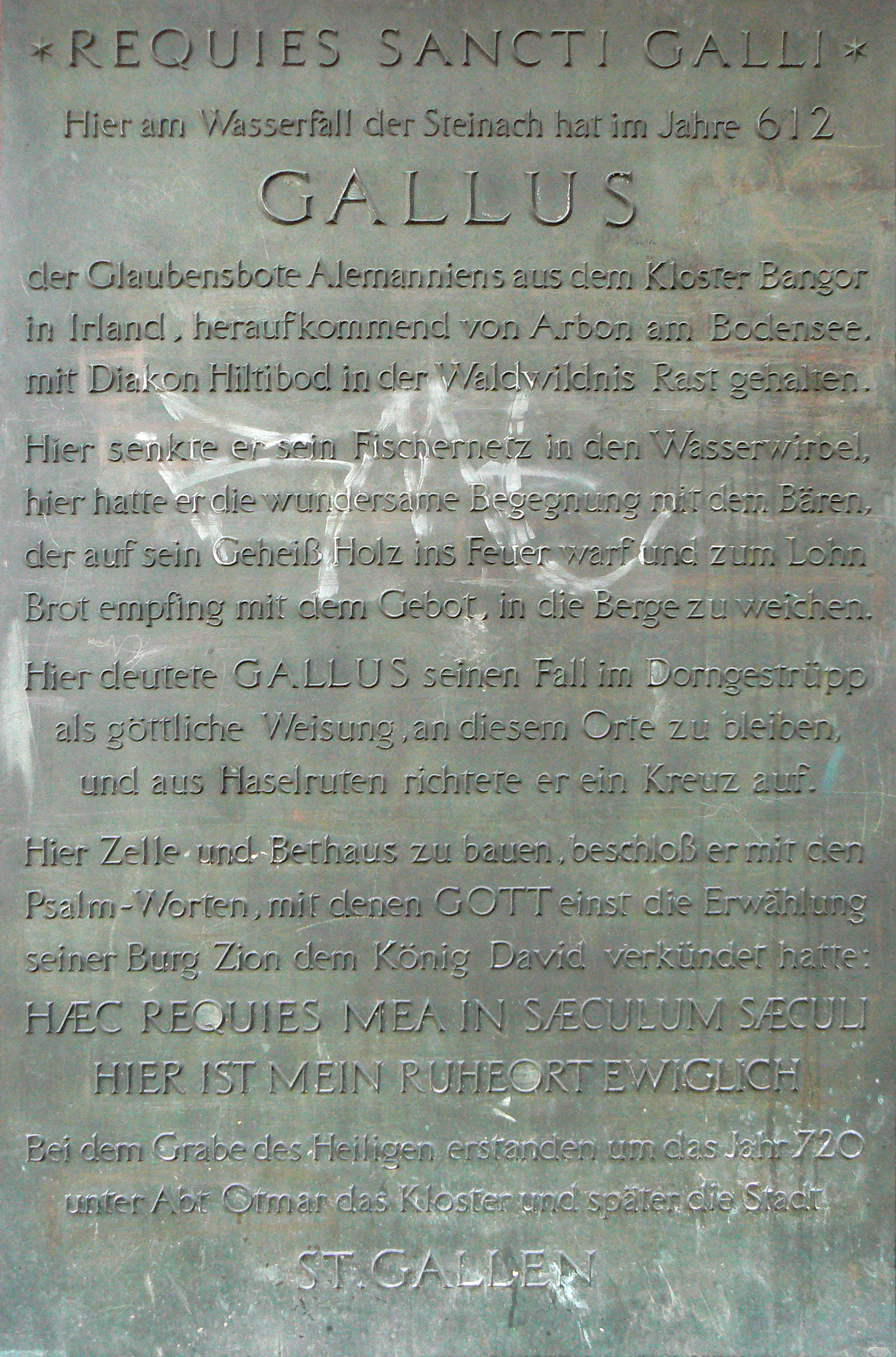 In memoriam of Saint Gall, founder of the city of St. Gallen